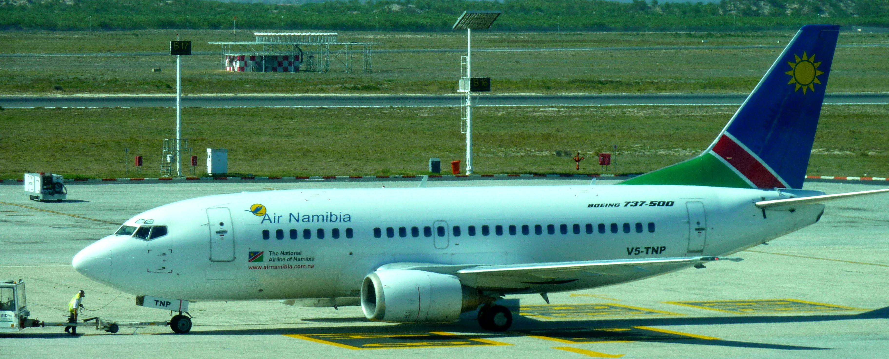 Air Namibia Boeing 737-528 - V5-TNP (cn 25259) at Cape Town International Airport - Cape Town, South Africa. Air Namibia has service from Cape Town (CPT) to Windhoek, Namibia (WDH) and Walvis Bay, Namibia (WVB).